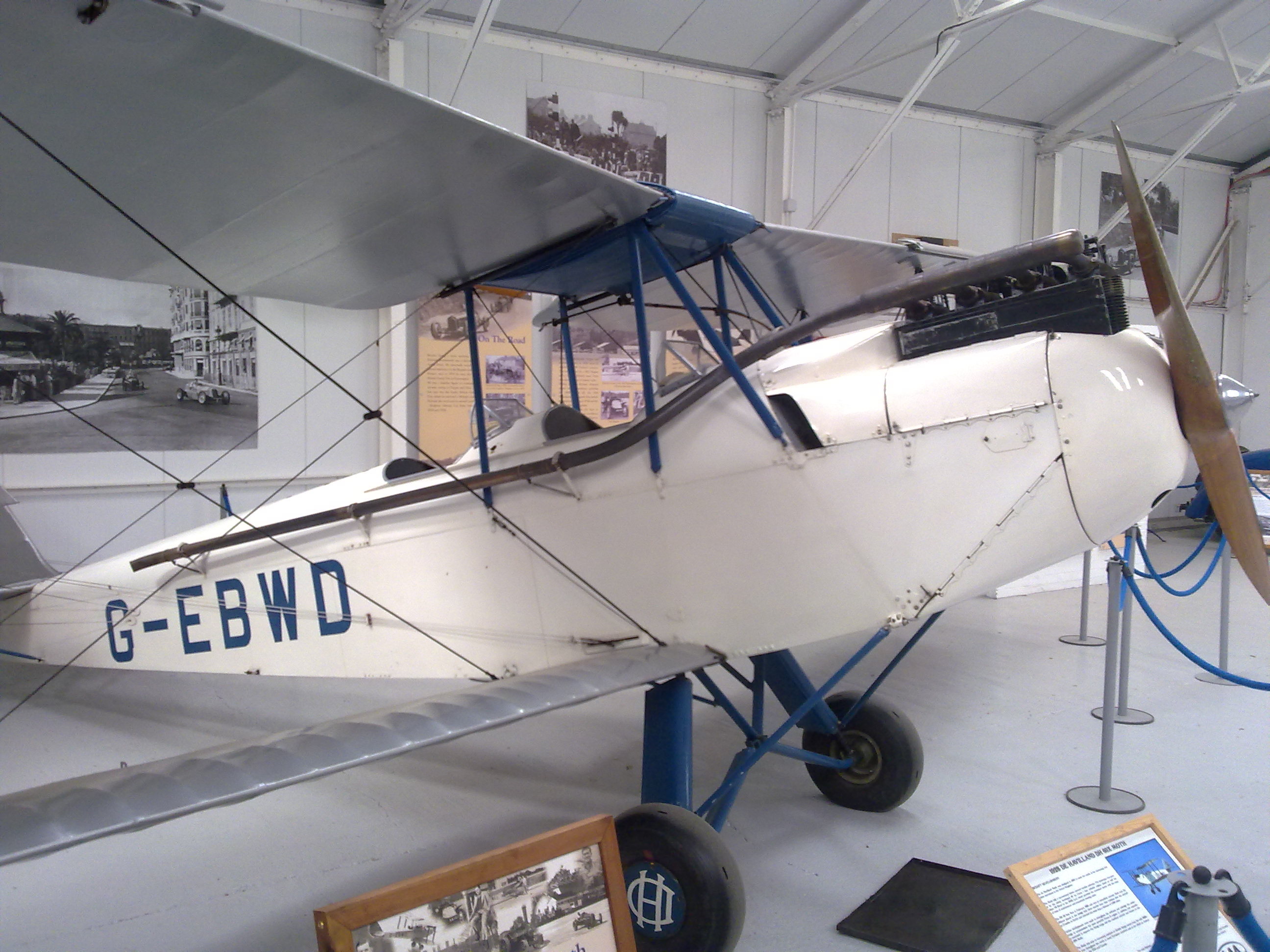 A DH 60, G-EBWD, flies regularly during displays at the Shuttleworth Collection near Old Warden, Bedfordshire, England. This Moth was originally Lord Shuttleworth's own private plane and during its career was extensively modified with an original Cirrus Hermes engine but an x-legged undercarriage and different windshields on the front and rear cockpit.